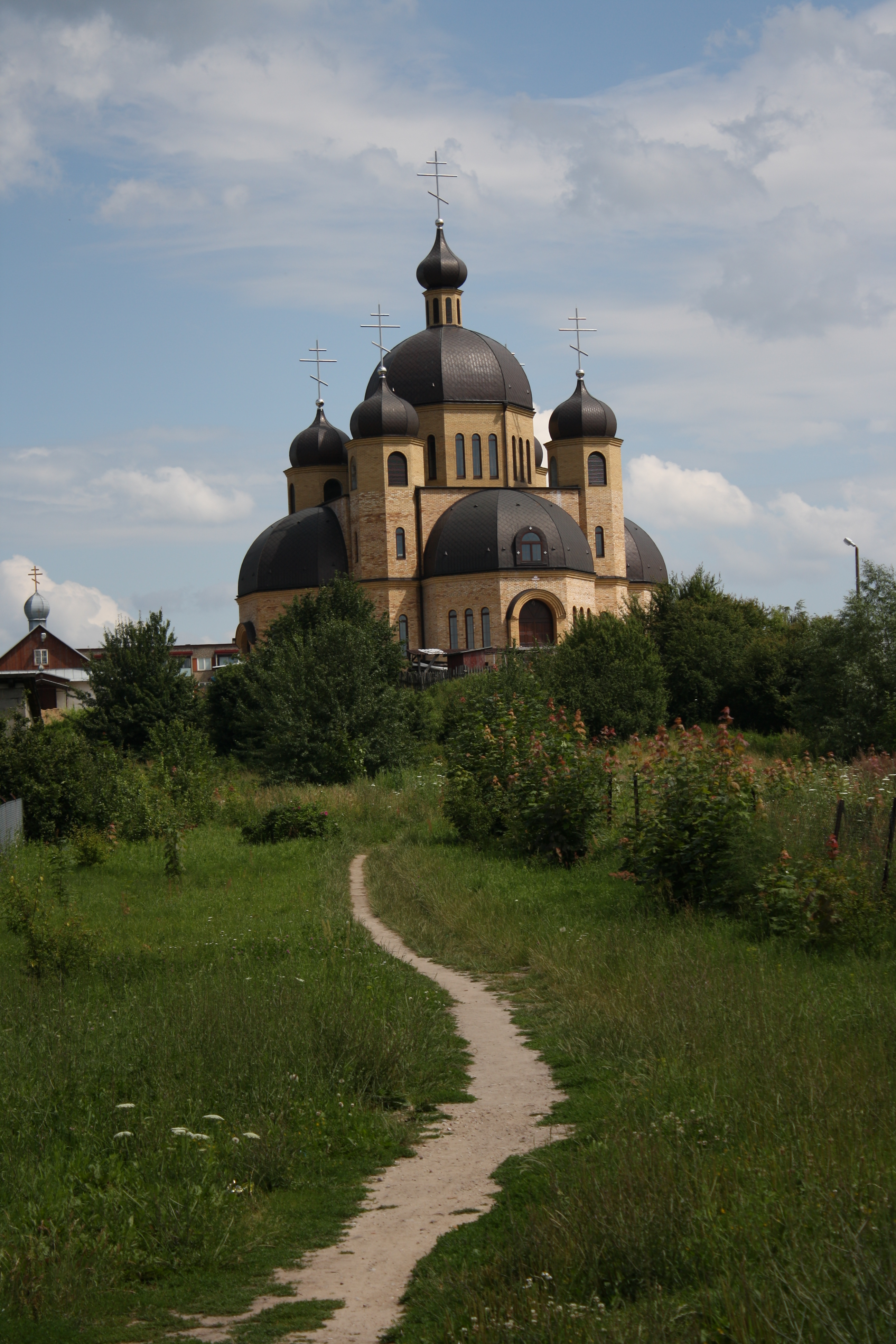 Siemiatycze (Podlasie Voivodeship), Orthodox Church of Resurrection of Christ